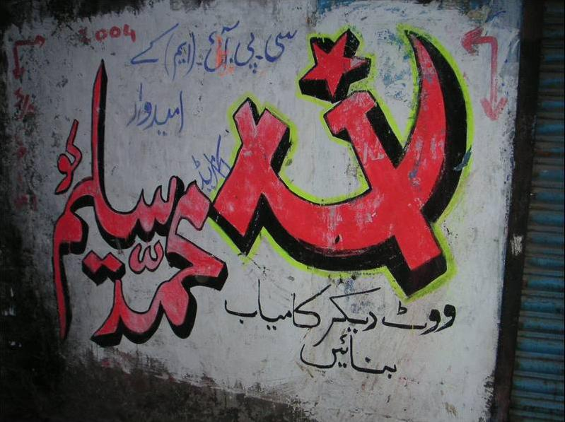 CPI(M) mural in Kolkata, urging voters to cast their vote in favour of CPI(M) Kolkata North-East candidate Mohammed Salim, in the Lok Sabha elections of 2004. Photo: Soman